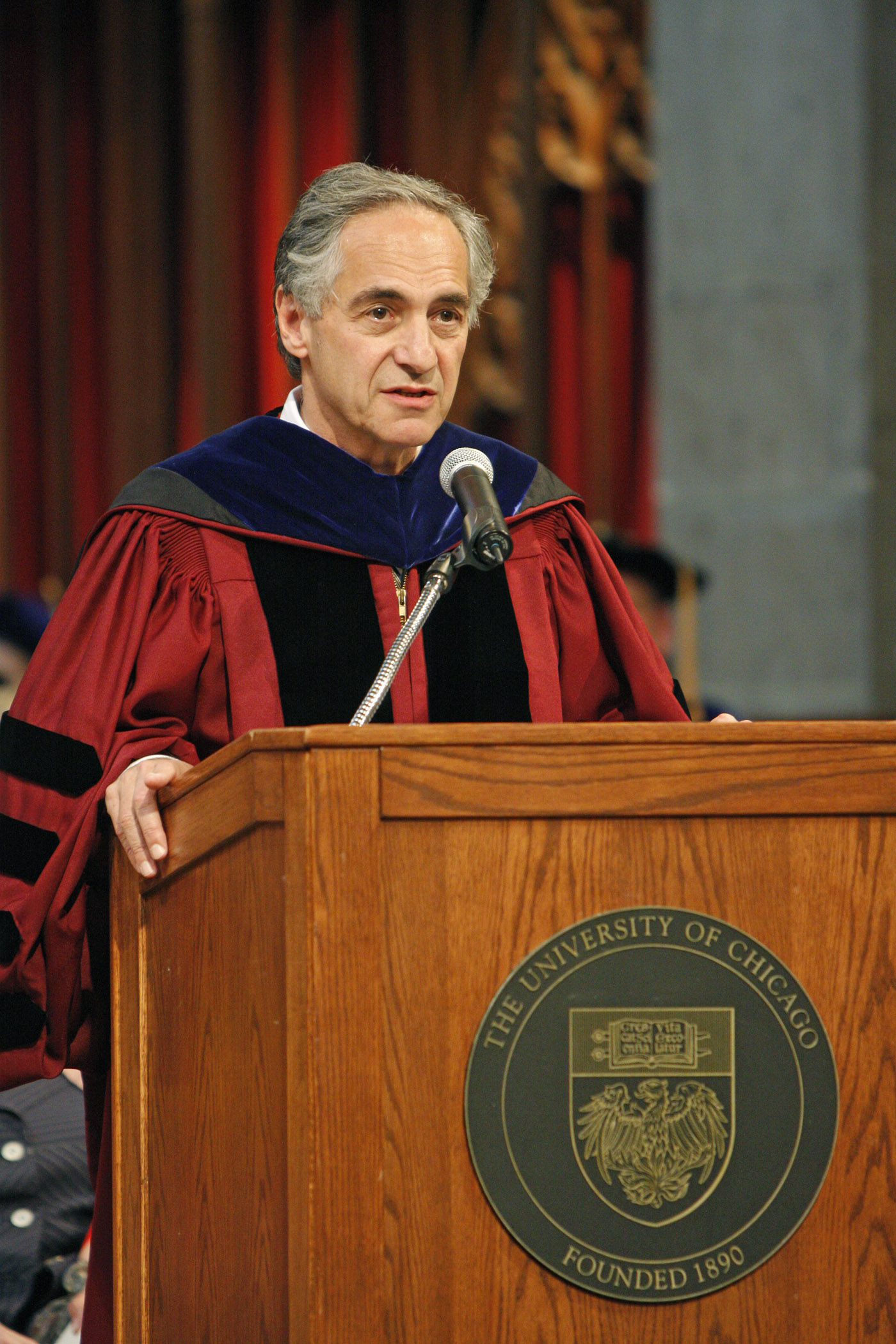 President Robert J. Zimmer speaks at the University's 500th Convocation Ceremony on Saturday.